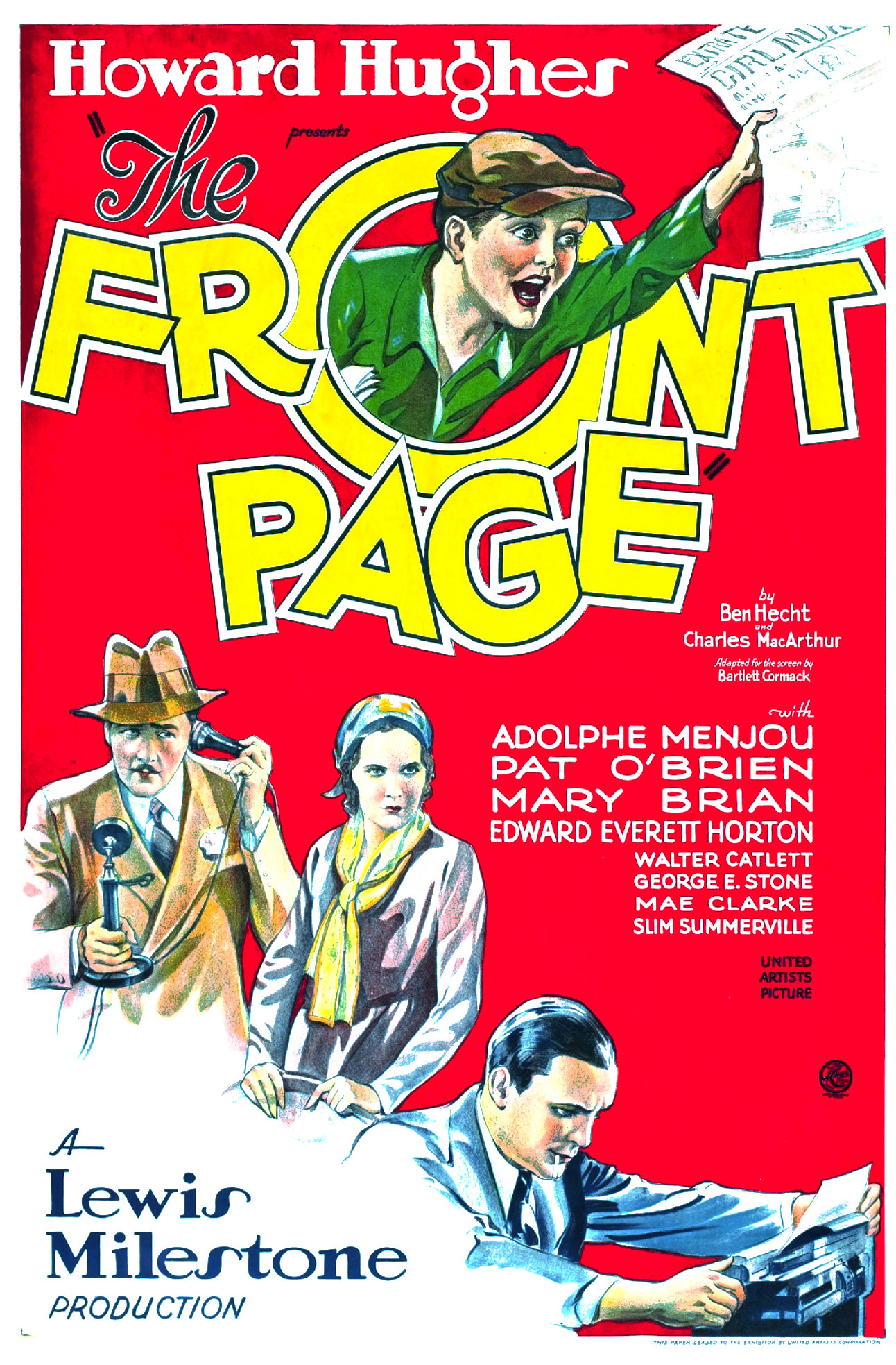 Poster for the American comedy film The Front Page (1931). There are no copyright marks. At bottom right is This paper leased to the exhibitor by United Artists Corporation.